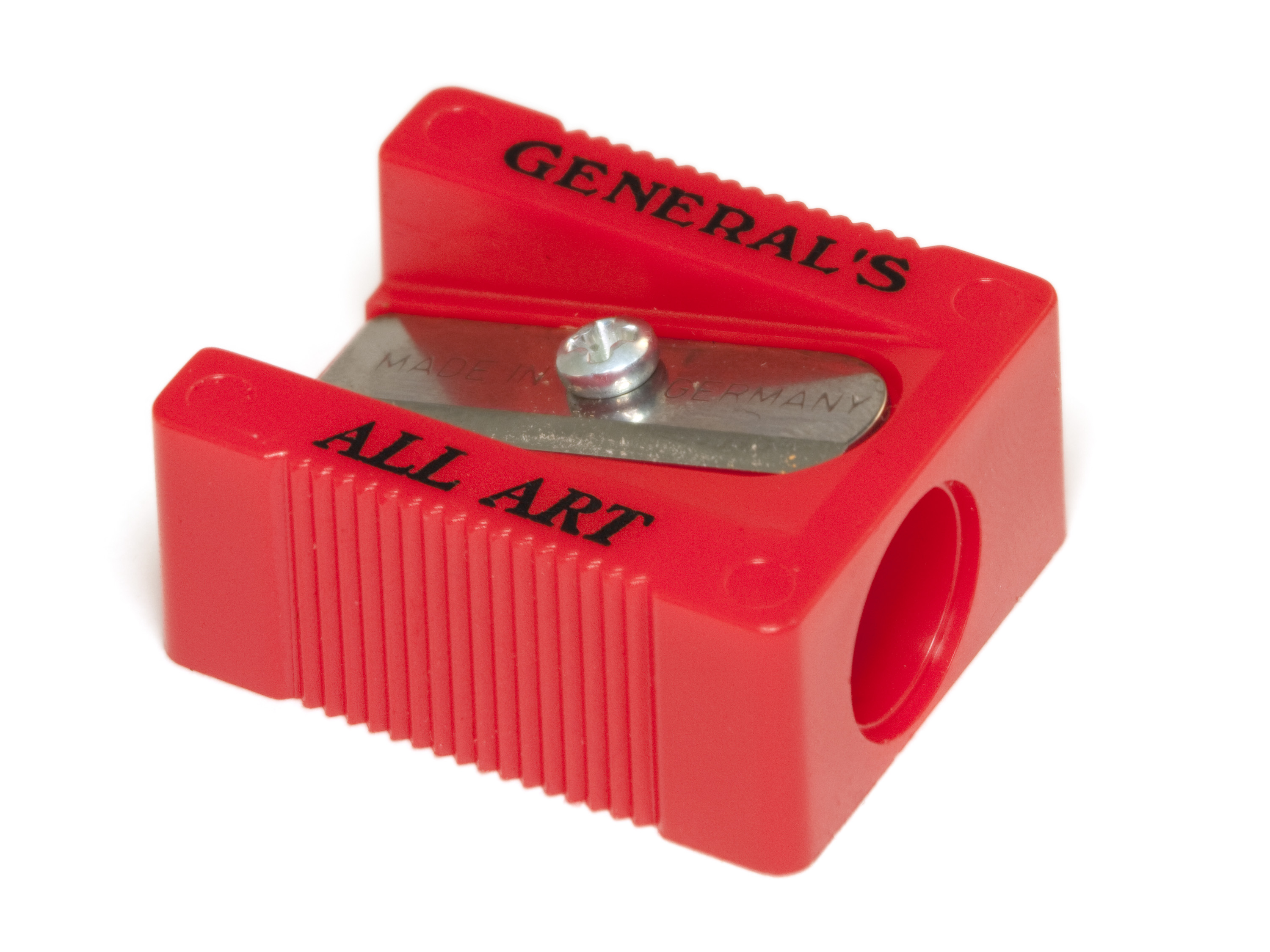 A plastic pencil sharpener